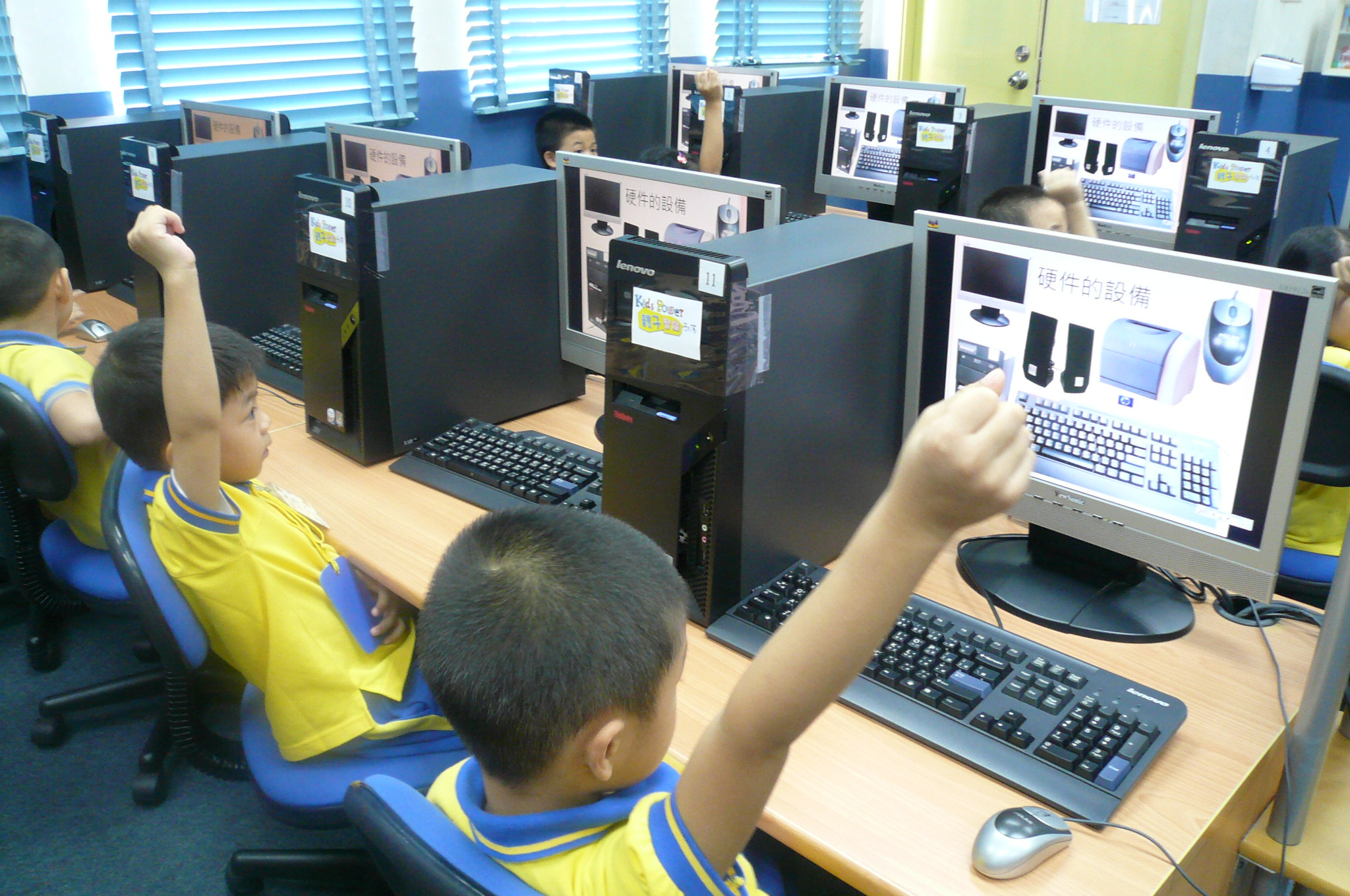 香港保護兒童會 - 資訊科技培訓中心